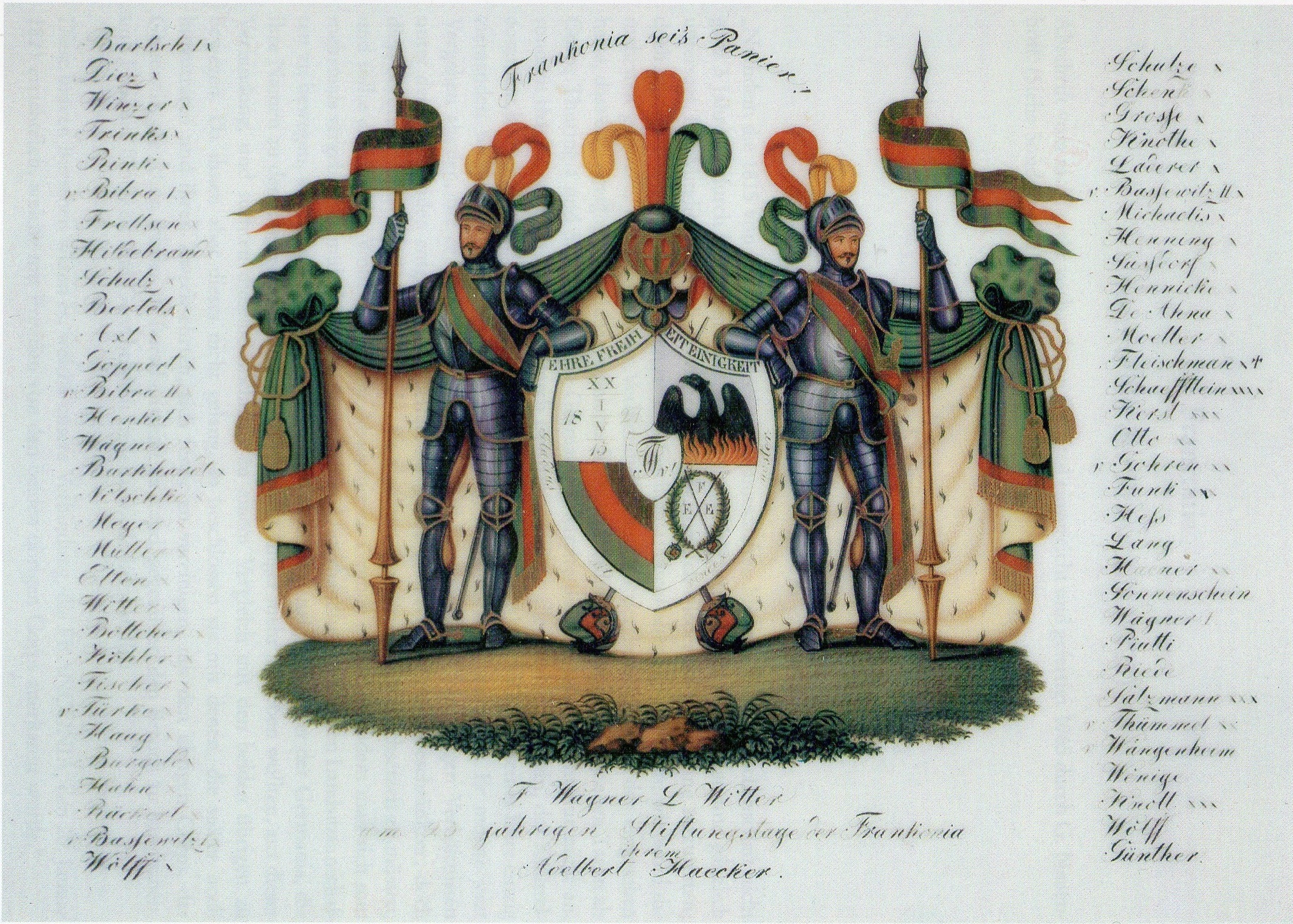 Ritterwappen des Corps Franconia Jena